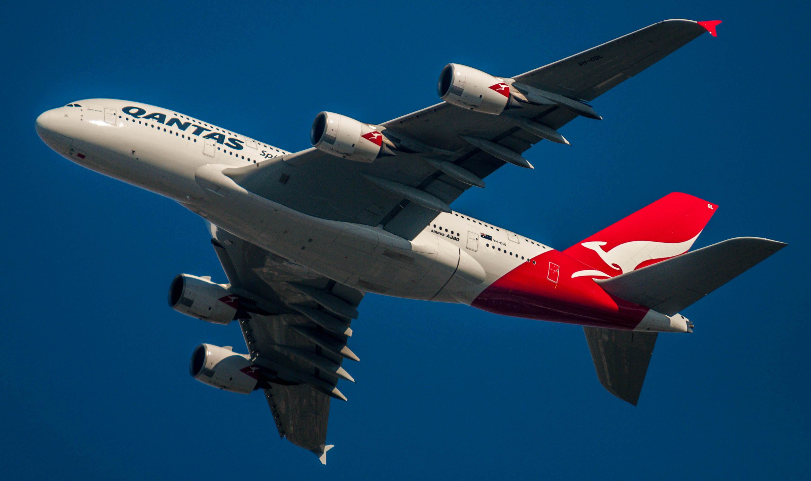 Qantas Airbus A380-800 VH-OQL 'Phyllis Arnott' on departure from Sydney Airport